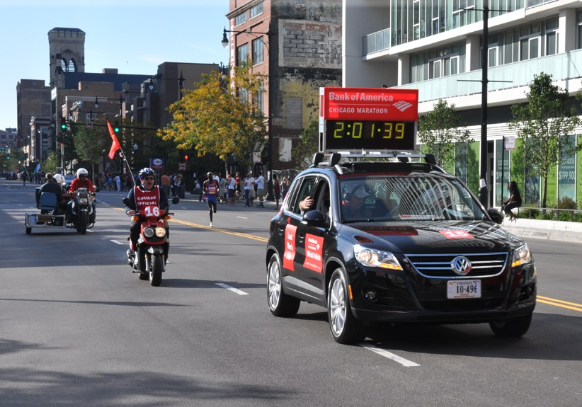 Evans Cheruiyot follows the pacecar during the 2008 Chicago Marathon